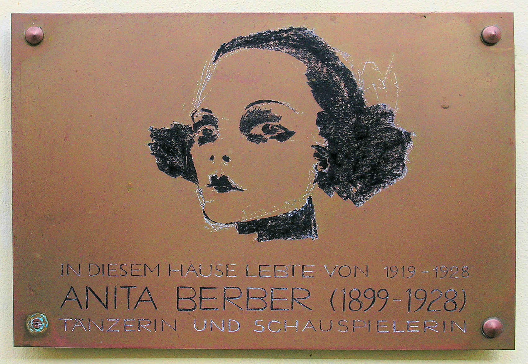 Memorial plaque, Anita Berber, Zähringerstraße 13, Berlin-Wilmersdorf, Germany